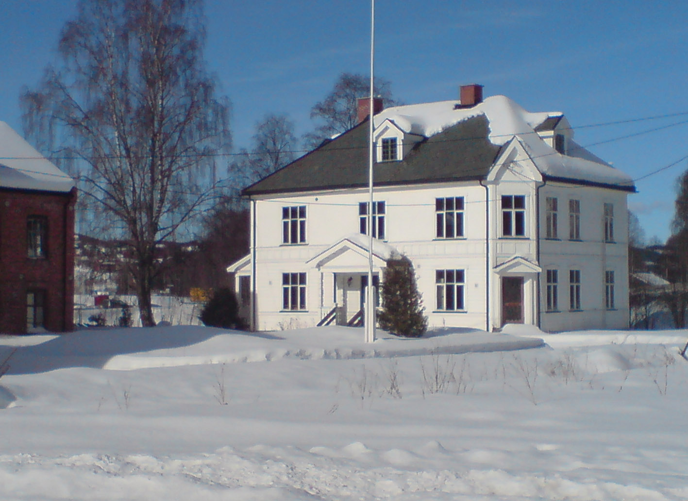 Roa Evangeliesenter - the first buildings used by Evangeliesenteret. Stiftelsen Pinsevennenes Evangeliesenter